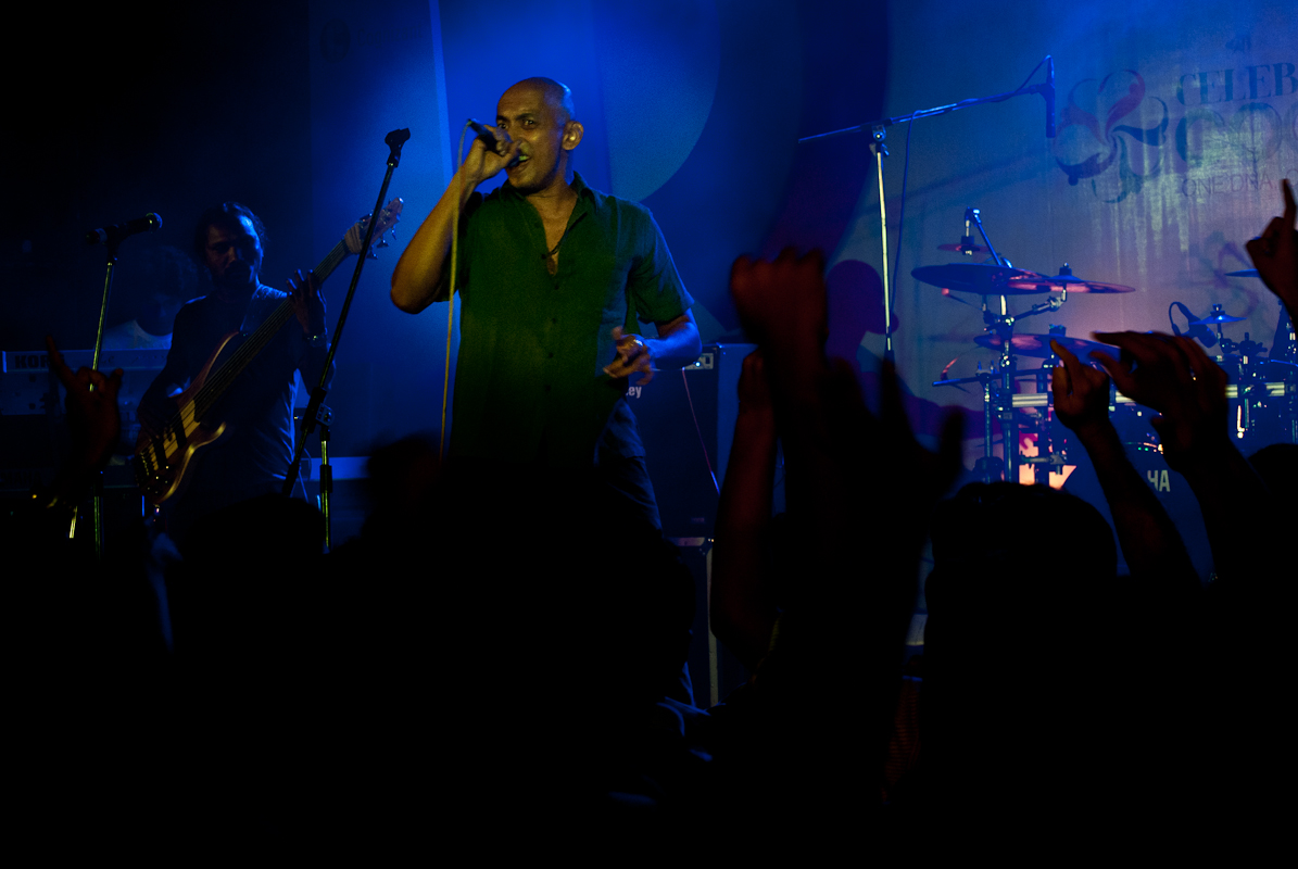 Indian alternative rock band Avial performing at Kochi in 2011. Vocalist Tony John and bassist Binny Isaac can be seen.